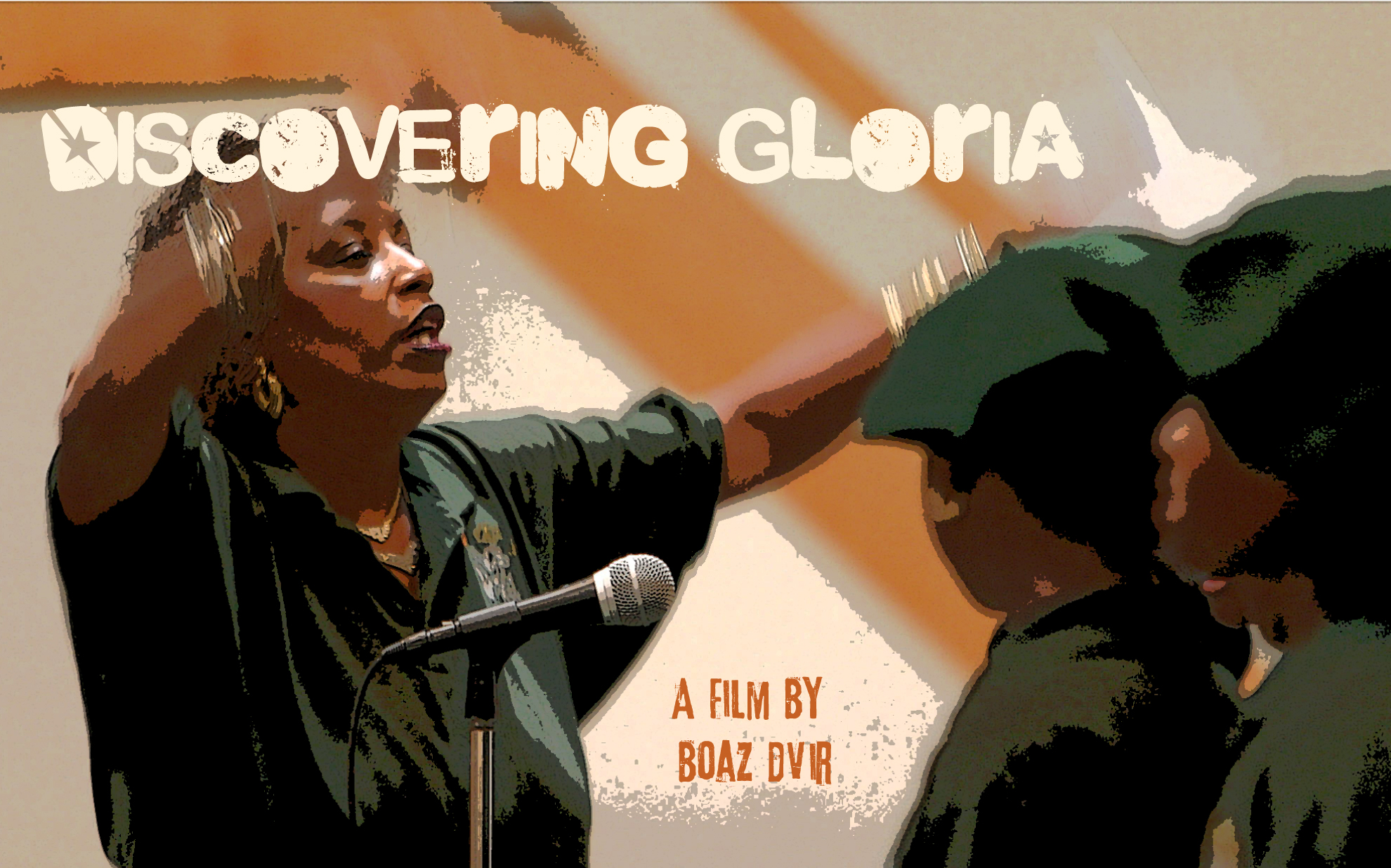 The promotional poster for the film "Discovering Gloria"